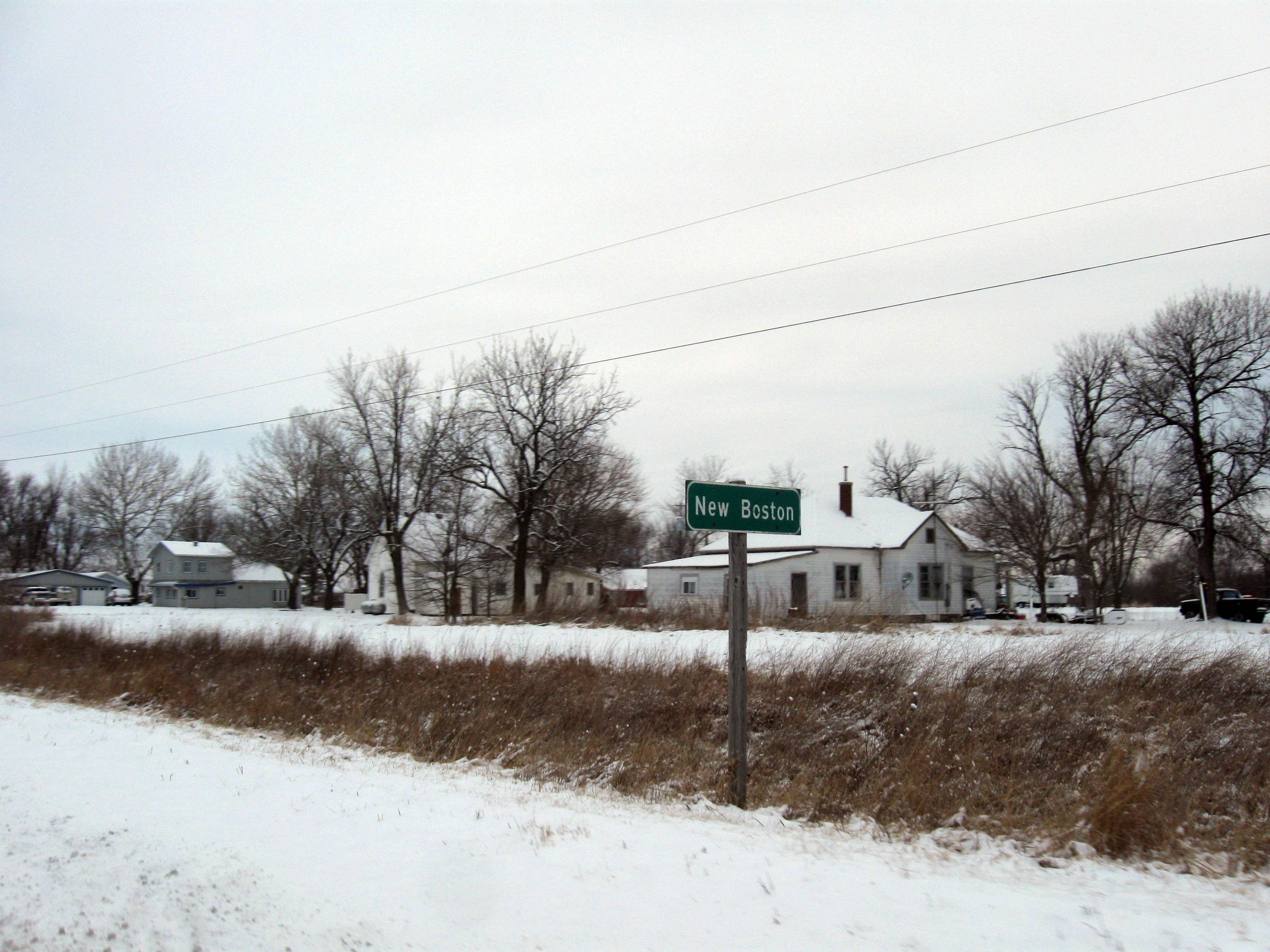 New Boston, Iowa, From hwy 218 facing northwest. Billwhittaker (talk) 17:32, 9 February 2009 (UTC)